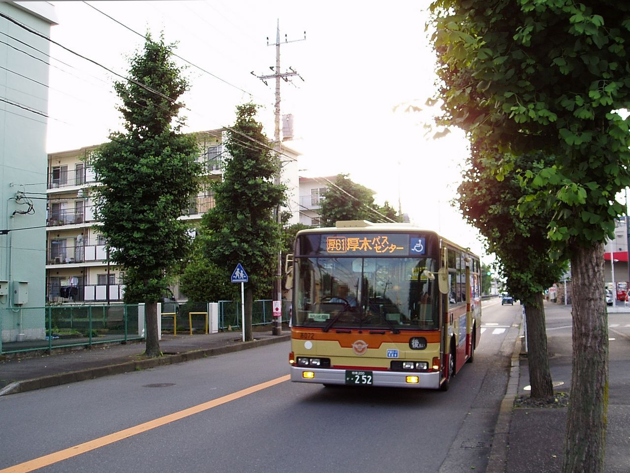 Kanagawa Chuo Kotsu A072 Mitsubishi KL-MP35JM at Kasugadai in Aikawa Town,Kanagawa